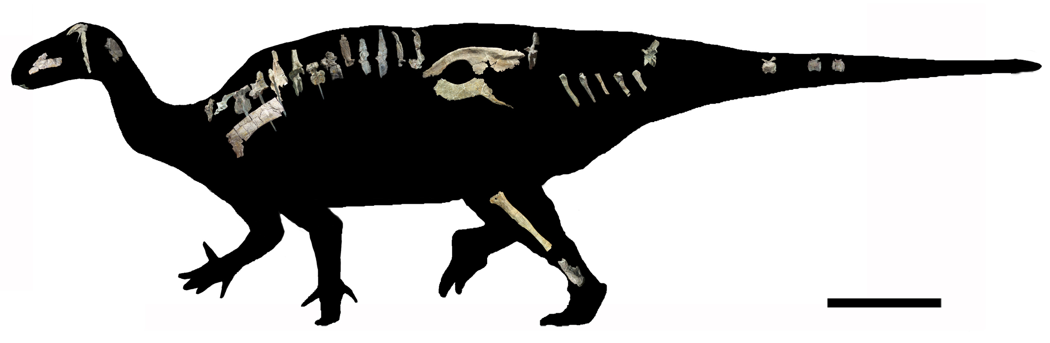 Reconstruction of Iguanacolossus fortis.